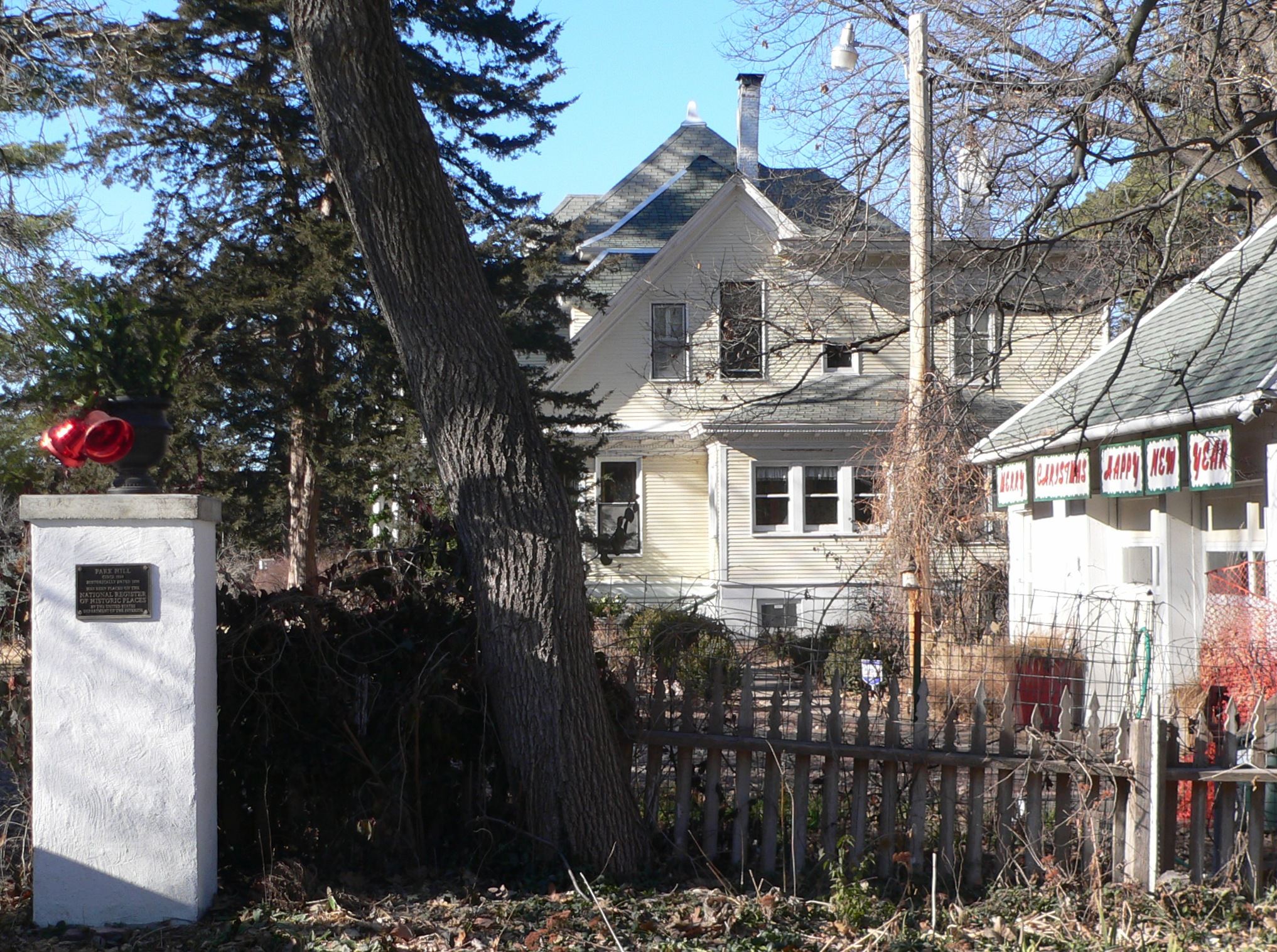 Park Hill, located at 1913 S. 41st Street in Lincoln, Nebraska; seen from the east.